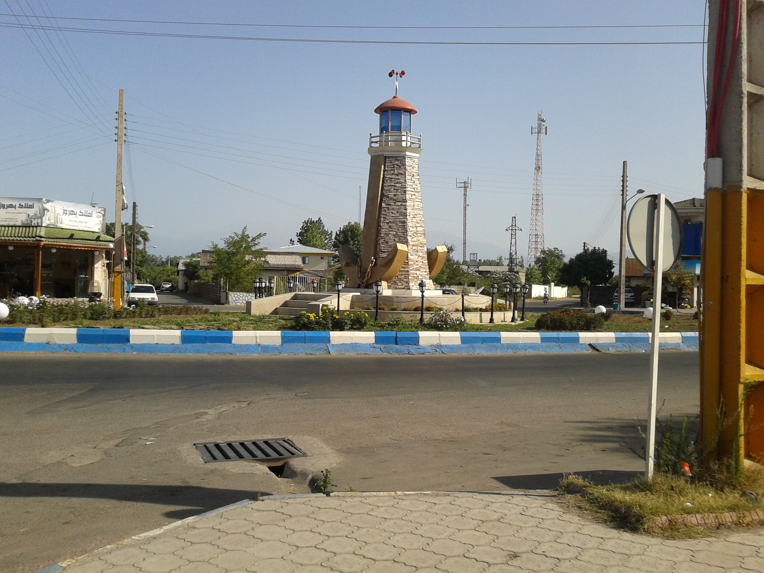 Chamkhaleh Square